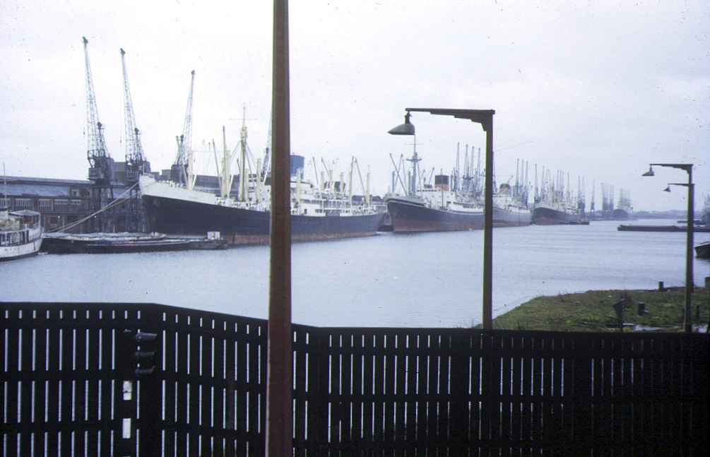 Royal Albert Dock, London, 1973, looking east from Connaught Road swing bridge